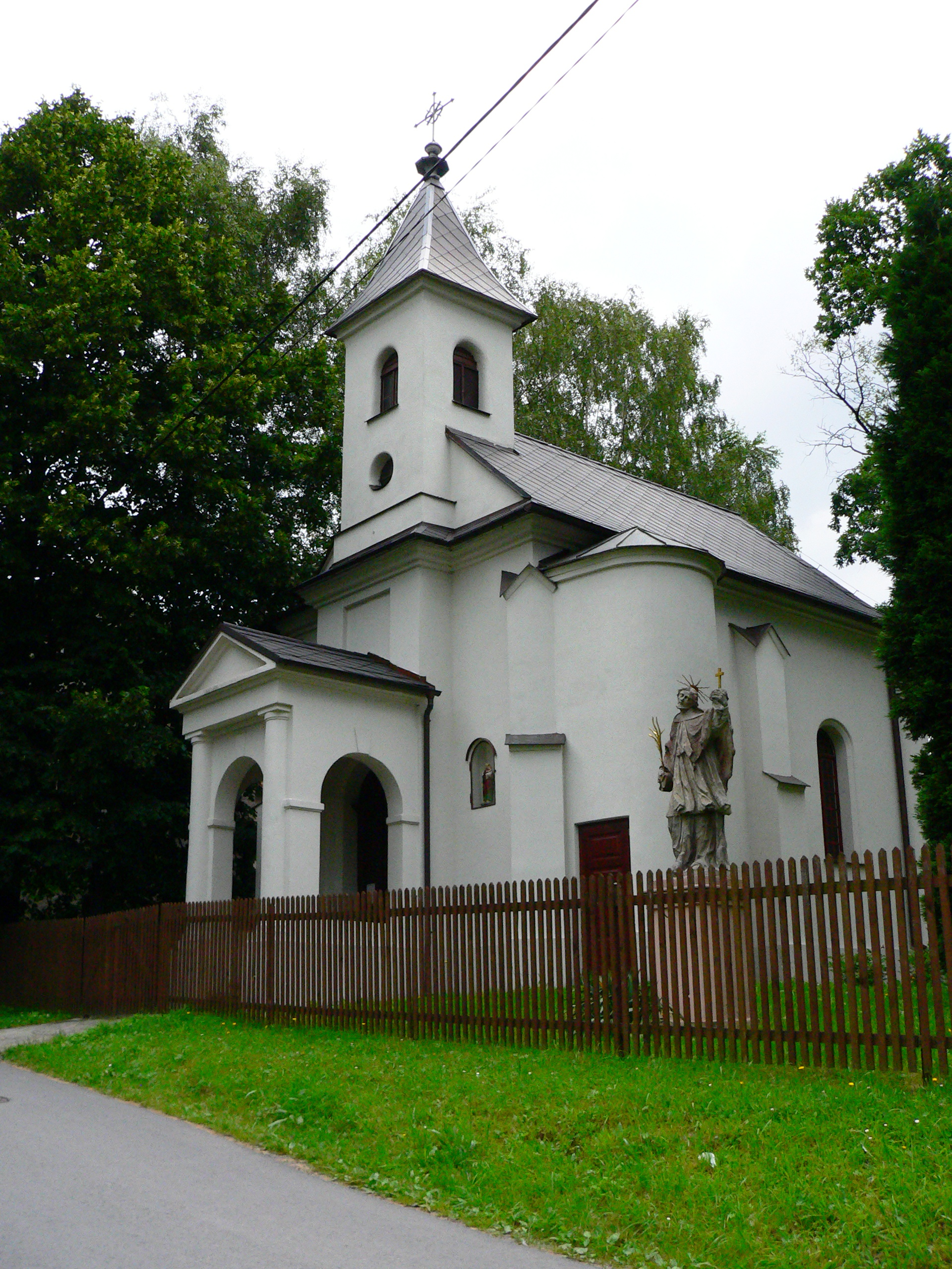 Saint Anna's Chapel in Karviná-Ráj.